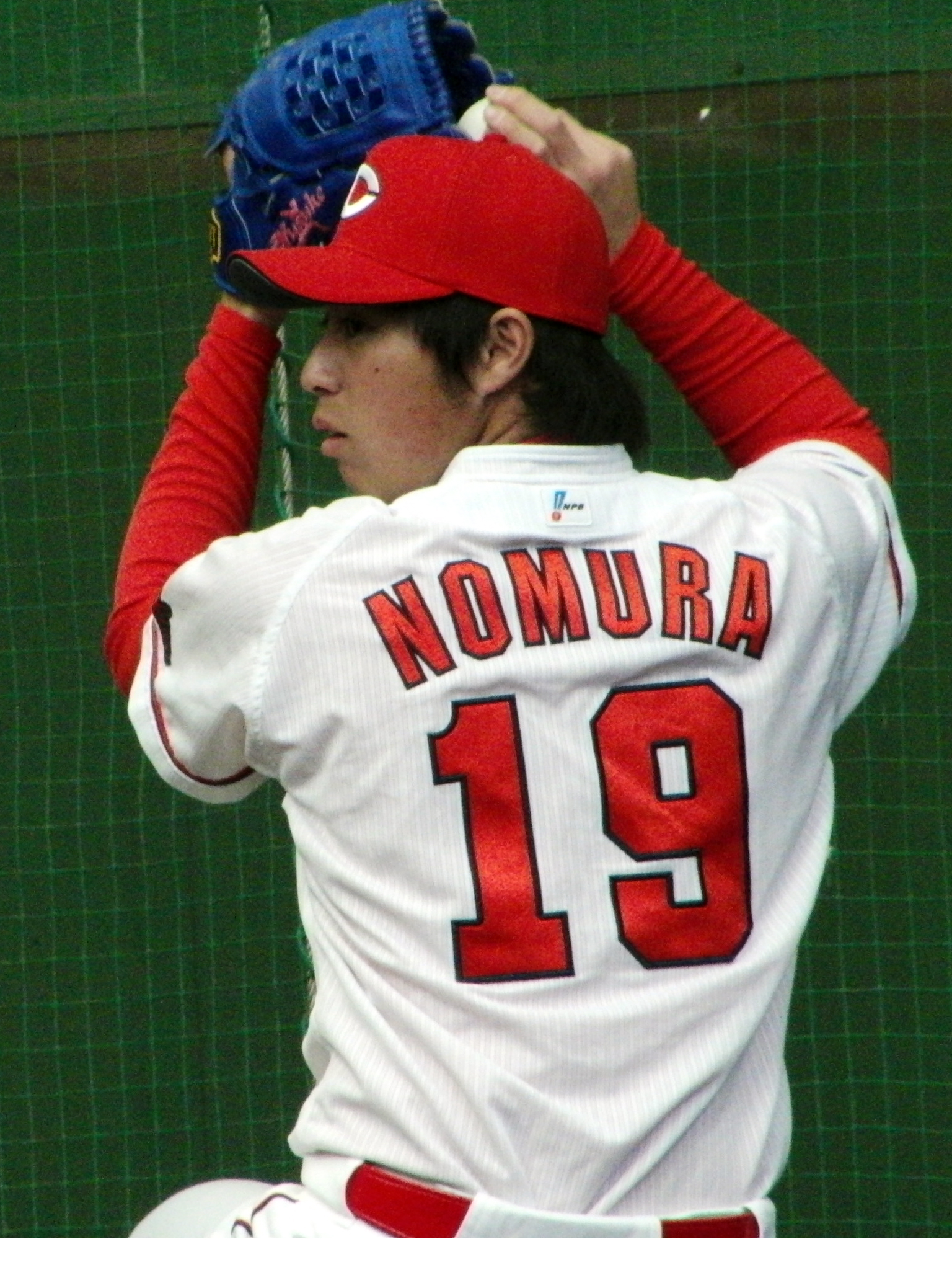 Yusuke Nomura, pitcher of the Hiroshima Toyo Carp, at Nichinan Tempuku Baseball Stadium.